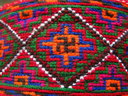 Ornament of wakhi traditiobal cap (skid)